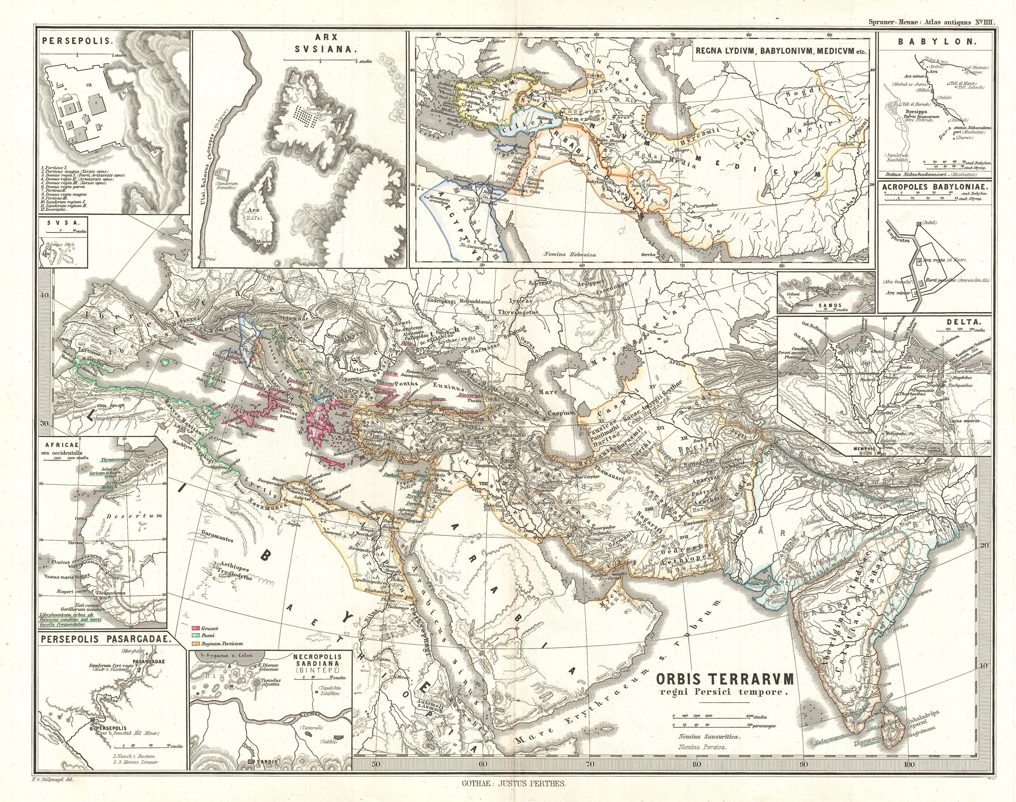 This is Karl von Spruner’s 1865 map of The World at the Time of the Persian Empire with eleven insets. The insets (starting clockwise from the upper-left quadrant) feature “Persepolis”, “Arx Susiana”, “the Kingdoms of Lydia, Babylon, and Media”, “Babylon”, “The Acropolis of Babylon”, “The Nile Delta”, “Samos”, “The Burial Grounds at Sardis”, “Persepolis –Pasargadae”, “Africa: The West Coast” and “Sush”. Countries and territories outlined in color. The whole is rendered in finely engraved detail exhibiting throughout the fine craftsmanship of the Perthes firm.